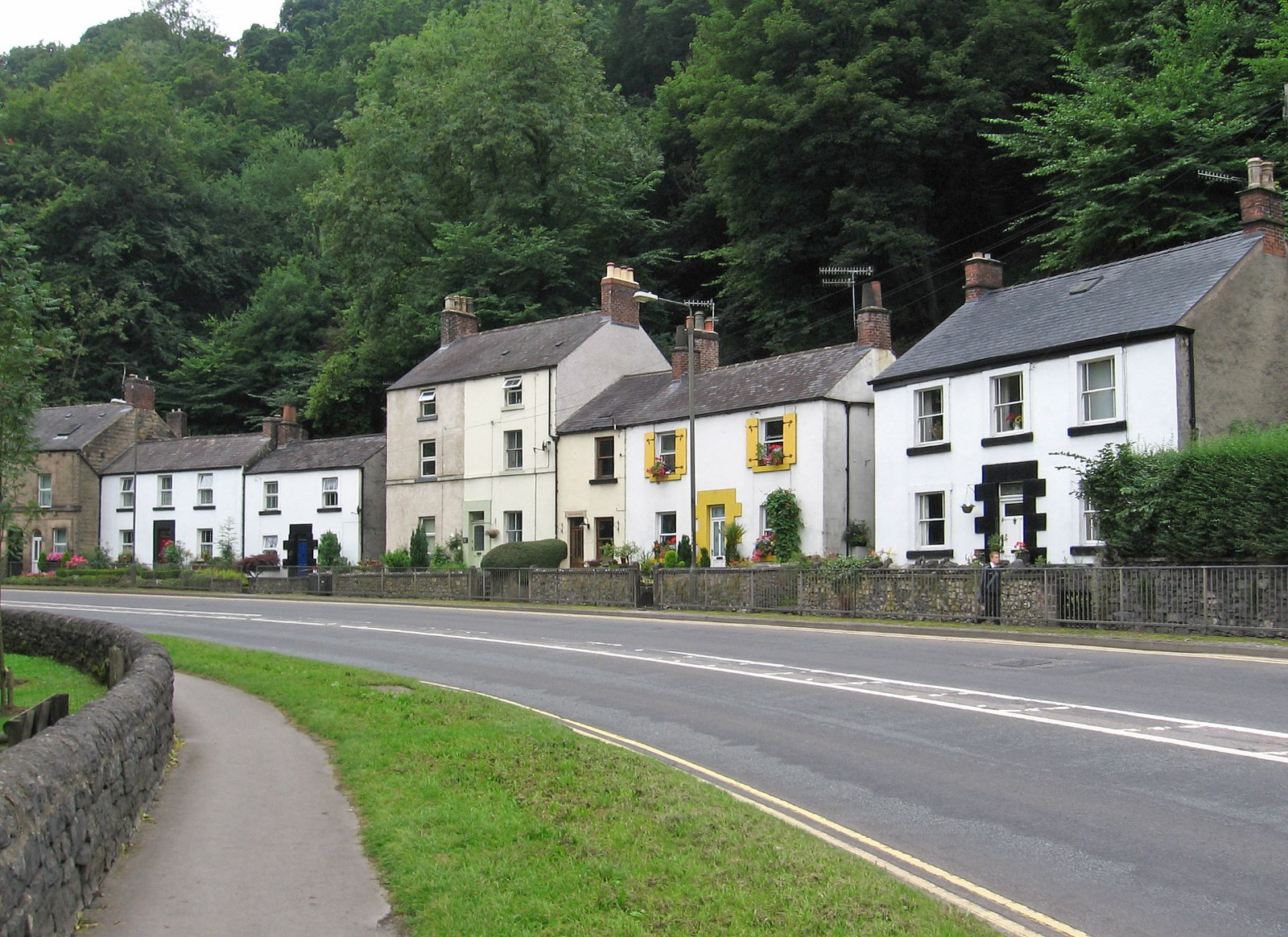 Matlock - Artists Corner from A6 car park